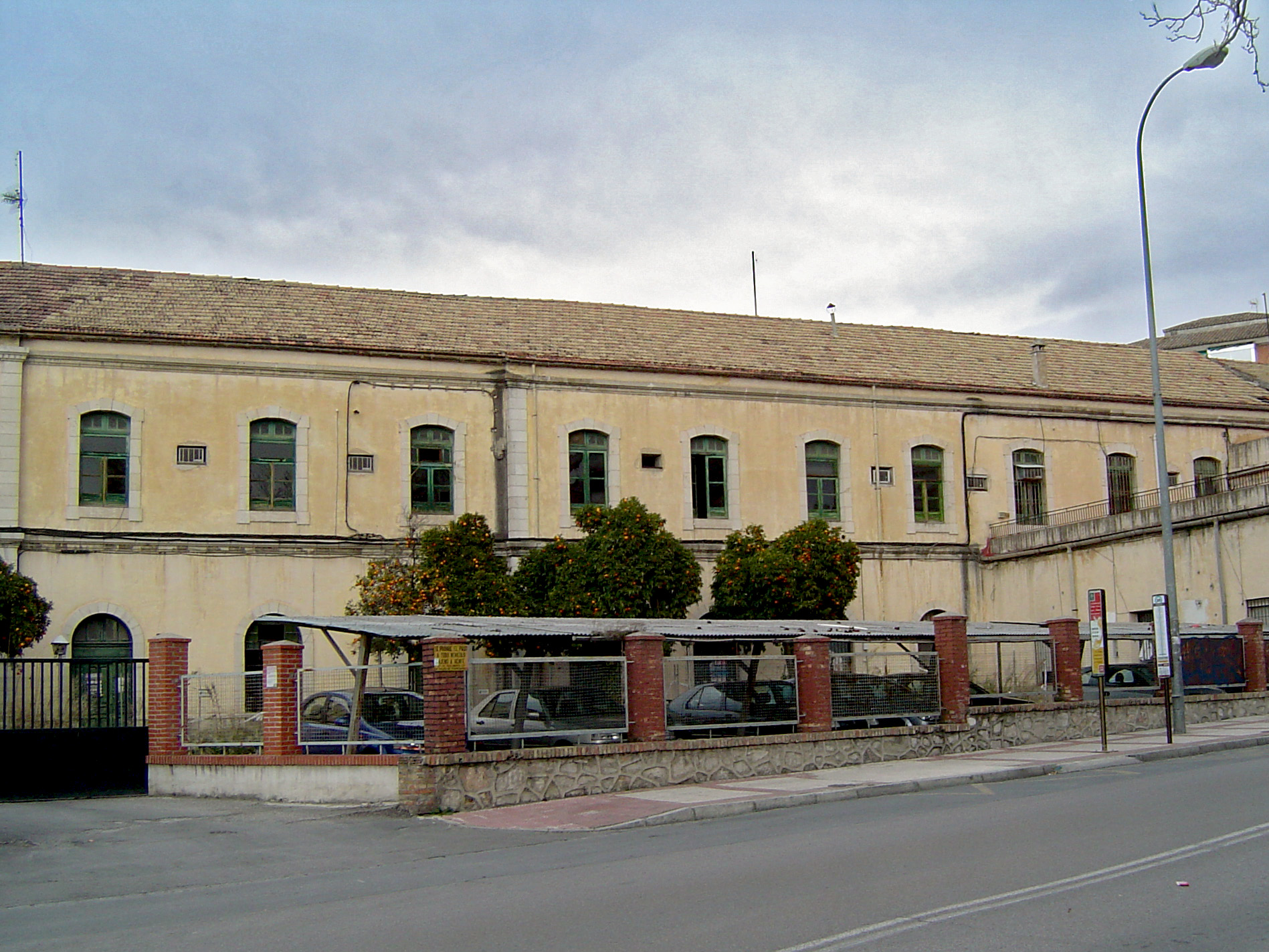 Abandoned train station in Granada (Spain)